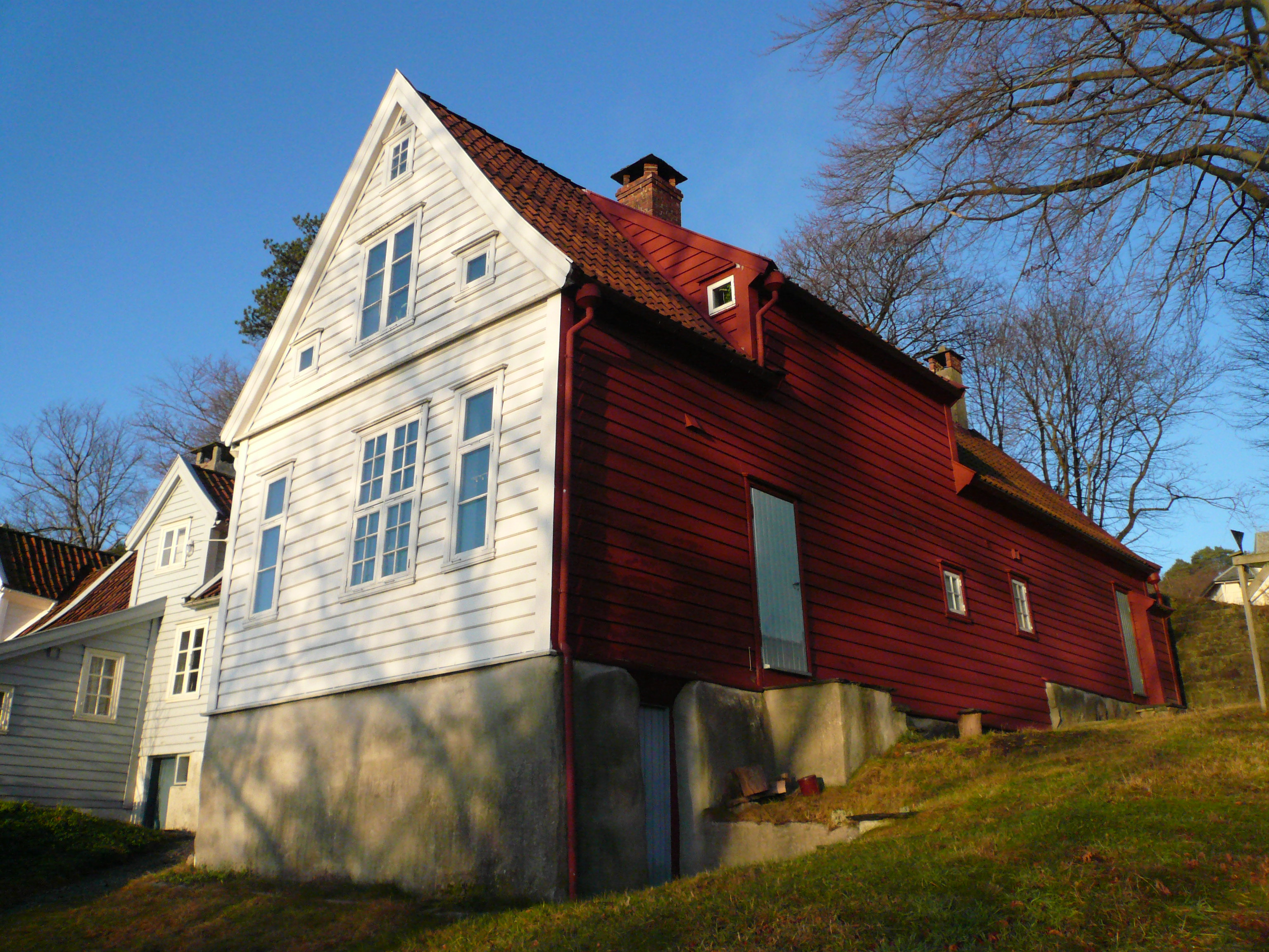 Allersgården, Gamle Bergen Museum